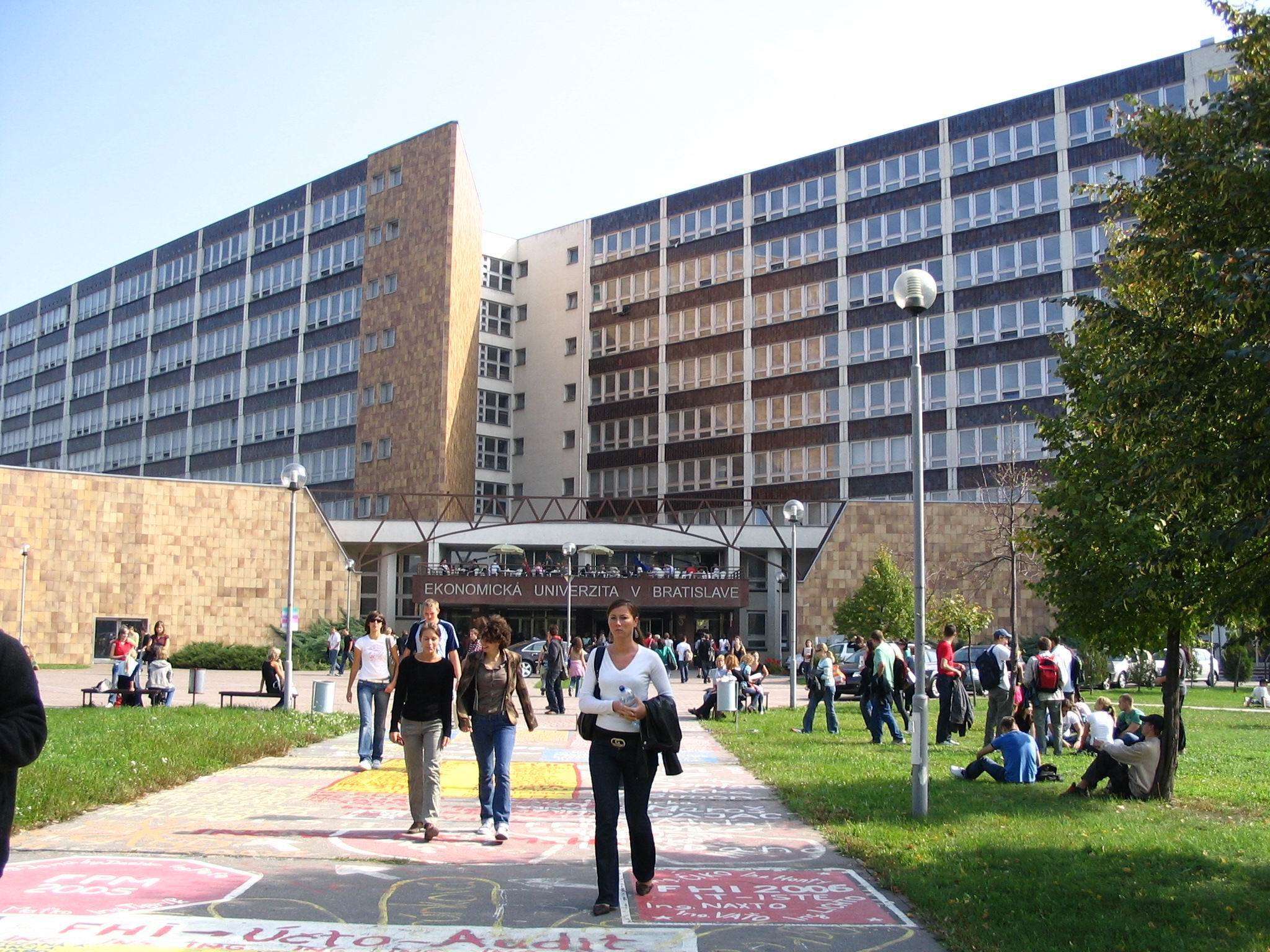 Main Building Hall of the University of Economics in Bratislava at Dolnozemská cesta 1, Bratislava